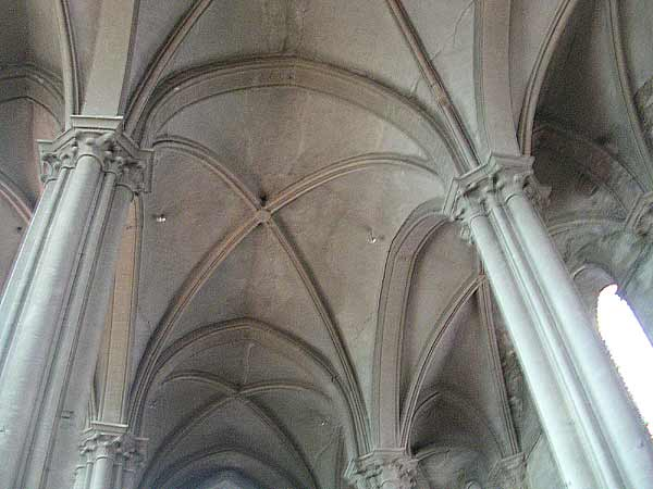 Billom: Saint Cerneuf church (Puy-de-Dôme, France) Auteur/author Romary 2004